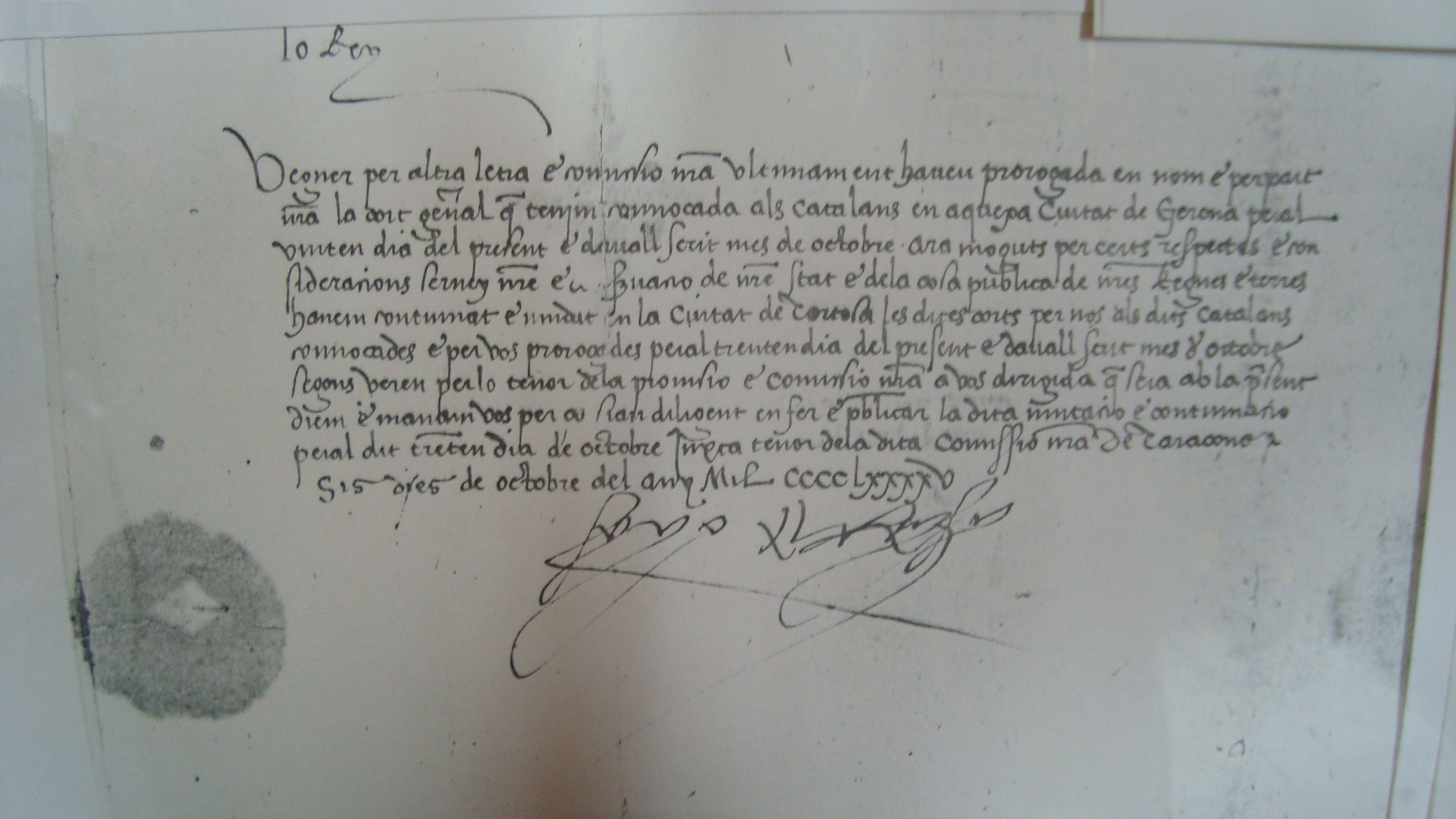 written in Catalan King Ferdinand to Veguer Balsareny cuts in Tortosa calling card. Written in Tarragona to 6 October 1495.